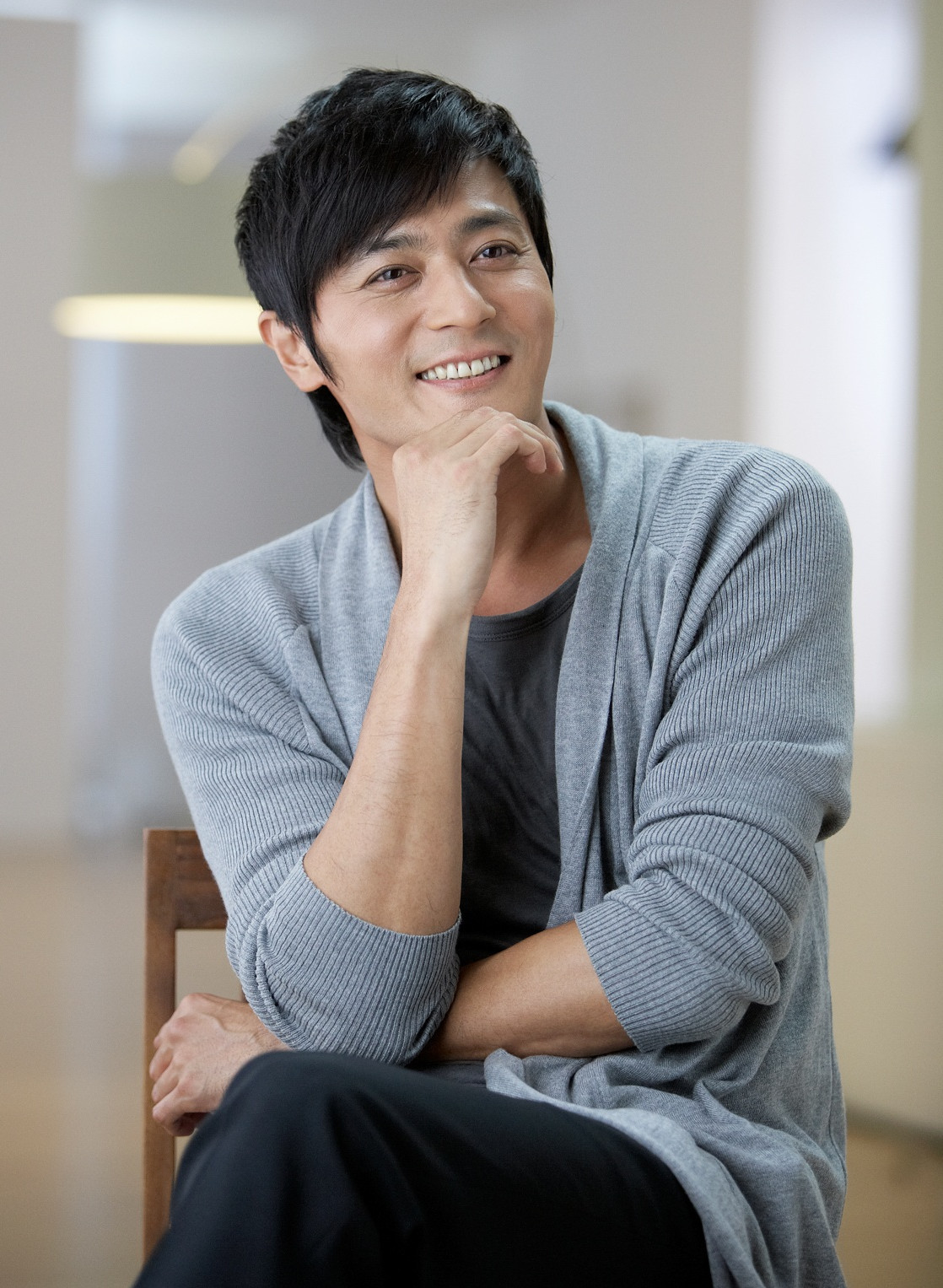 Jang Dong-gun in LG ad